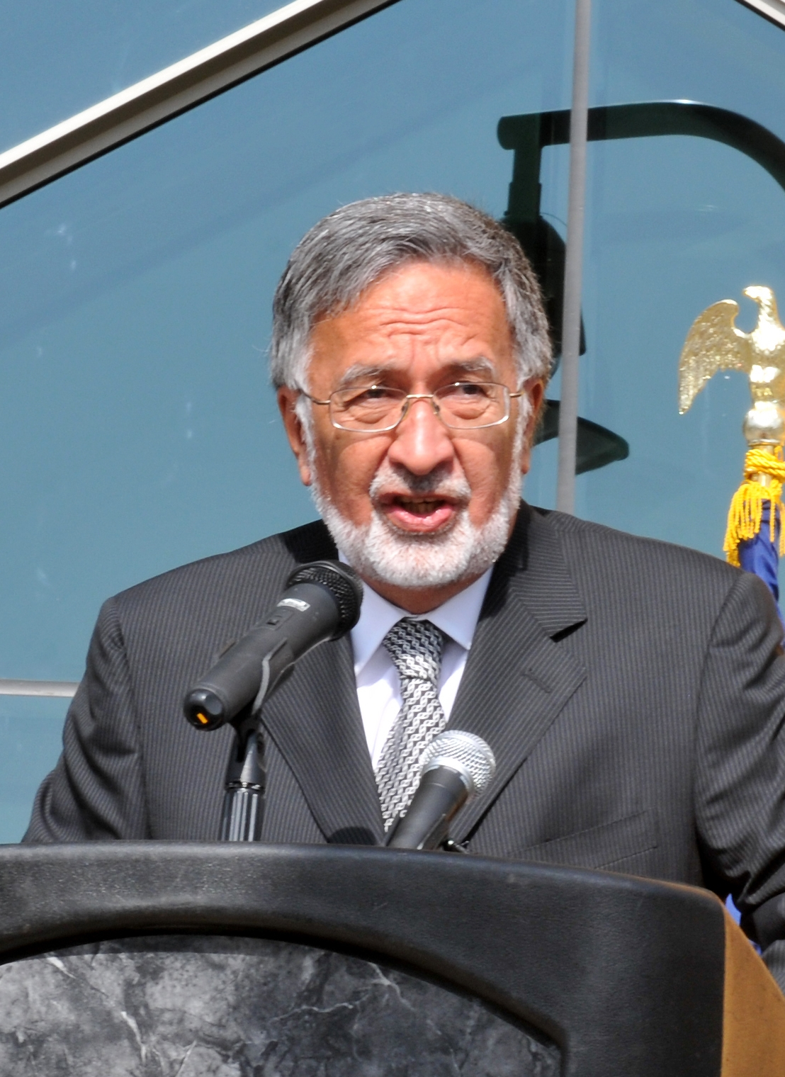 Afghan Minister of Foreign Affairs Dr. Zalmai Rassoul, joined U.S. Ambassador to Afghanistan Ryan Crocker and Marine Corps Gen. John R. Allen, commander of NATO and International Security Assistance Force troops in Afghanistan, in speaking about the solidarity between Afghanistan, the United States and NATO forged out of common sacrifices and a shared commitment to Afghanistan’s future, during a commemoration Sept. 11, 2011, at the U.S. Embassy, Kabul, Afghanistan. At the symbolic time of 9:11 a.m., guests and Embassy employees paused for a moment of silence to remember those who lost their lives in the terrorist attacks of 9/11, to express solidarity with their families and loved ones and to honor Afghan and international victims of terrorism. (U.S. Air Force photo/Master Sgt. Michael O'Connor) (Released)